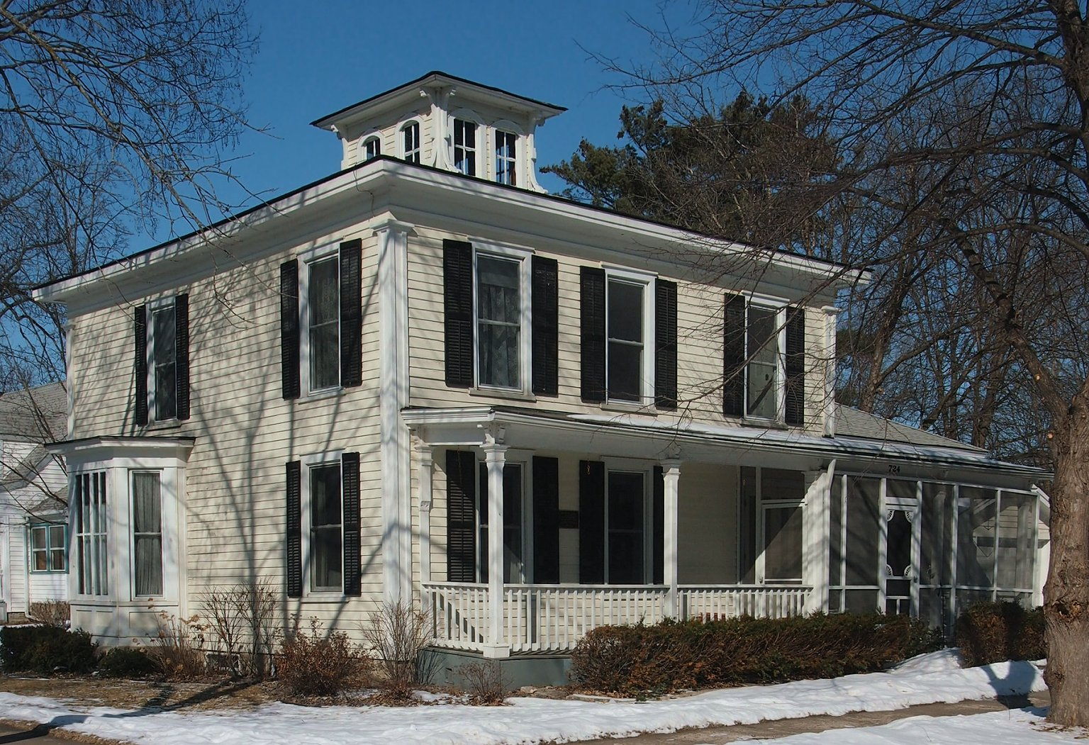 Ignatius Eckert House, 724 Ashland St, Hastings, Minnesota, USA. Viewed from the southeast. Moved to Hastings in 1857 from Nininger.